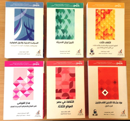 Alam Al Ma'rifah